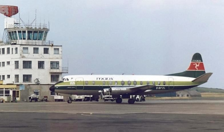 Manx Airlines Vickers Viscount 806 G-BFZL at IoM Ronaldsway